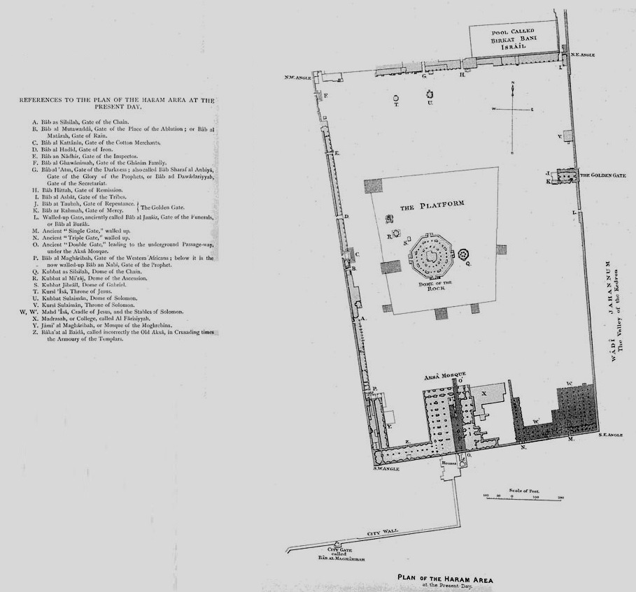 A plan of the Haram al-Sharif in 1890, from Palestine Under the Muslims: A Description of Syria and the Holy Land from AD 650 to 1500, by Guy Le Strange, London 1890 (hence out of copyright)